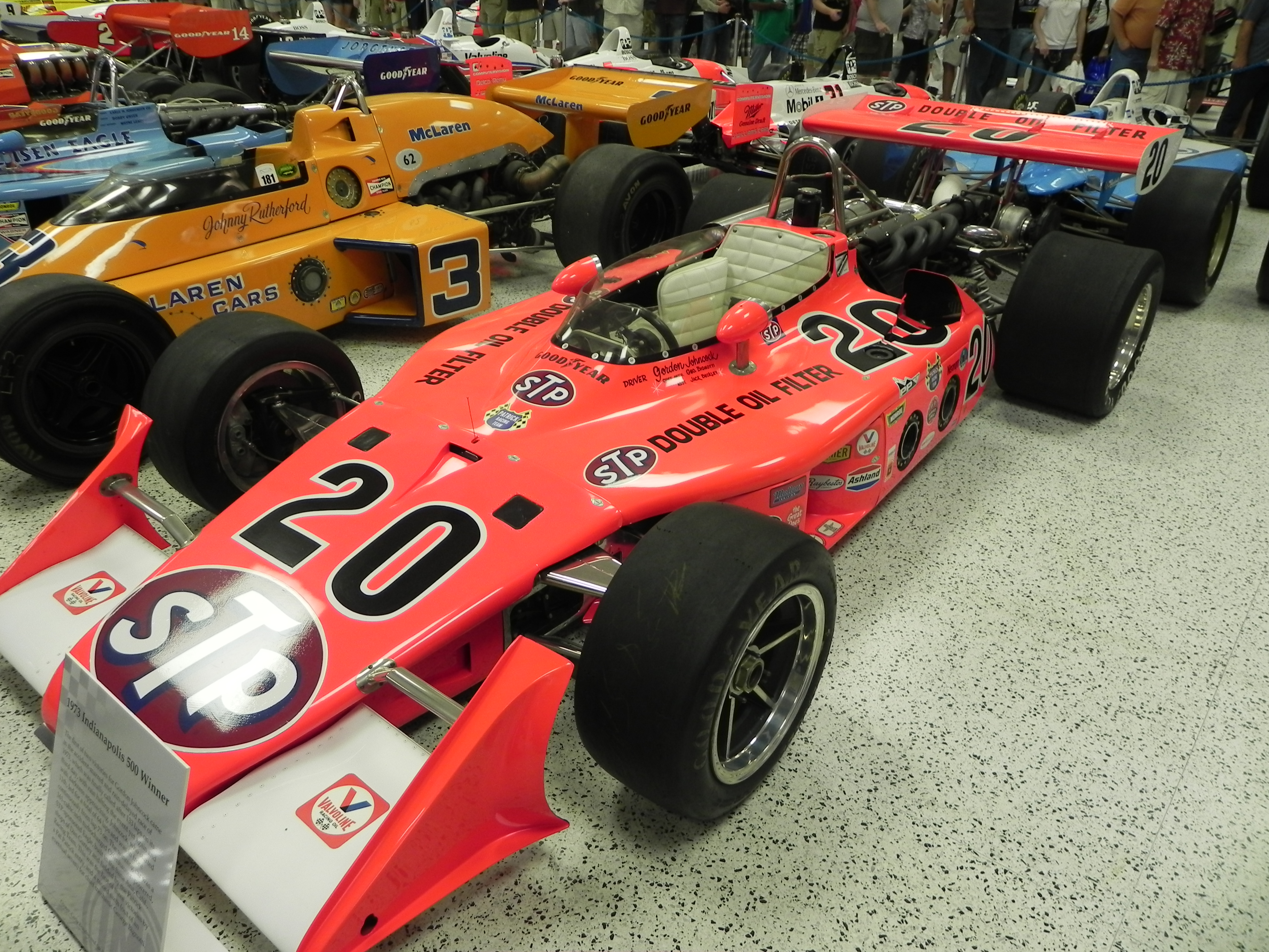 Image of the winning car of the 1973 Indianapolis 500 (Gordon Johncock). Photo was taken at the Indianapolis Motor Speedway Hall of Fame Museum, during the month of May 2011, at the 100th Anniversary "Ultimate Indianapolis 500 Winning Car Collection."